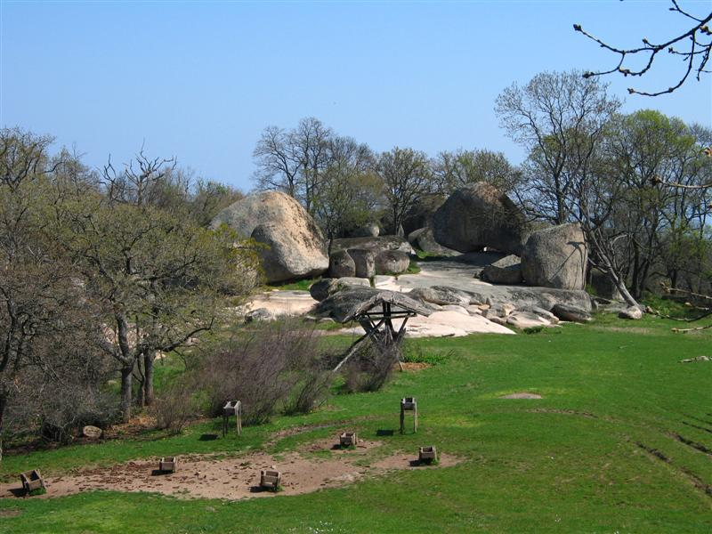 Thracian sanctuary of Begliktash, April 2007